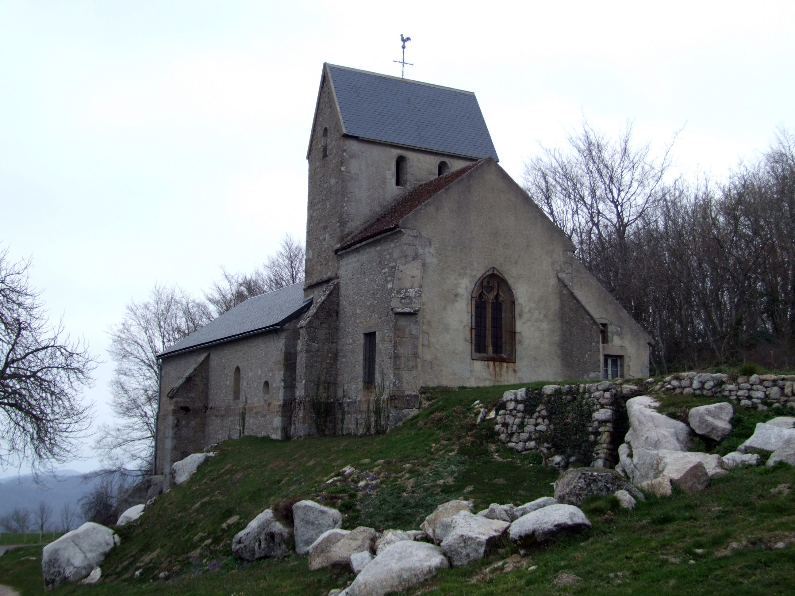 Uchon, Burgundy, FRANCE